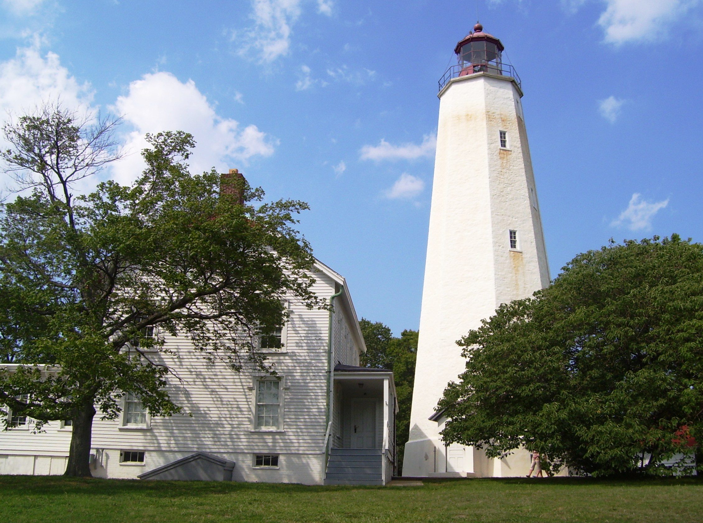 The Sandy Hook lighthouse, part of the Gateway National Recreation Area.